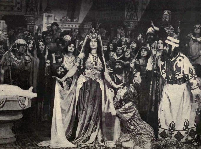 Still from the French film La prêtresse de Carthage (English title: A Priestess of Carthage) (France 1911), directed by Louis Feuillade. Published in David S. Hulfish, Cyclopedia of Motion-Picture Work (1914).